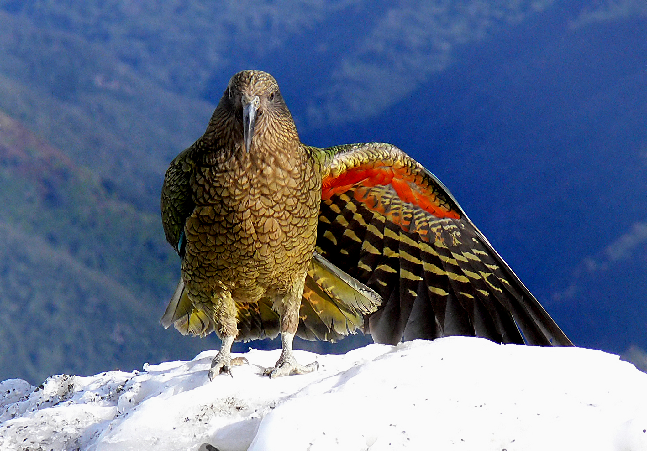 The New Zealand kea is an endemic parrot found in the South Island's alpine environments. Population: 1,000–5,000 Conservation status: Nationally Endangered Found in: Alpine environments of the South Island Kea are a protected species. They are the world's only alpine parrot, and one of the most intelligent birds. To survive in the harsh alpine environment kea have become inquisitive and nomadic social birds - characteristics which help them to find and utilise new food sources.